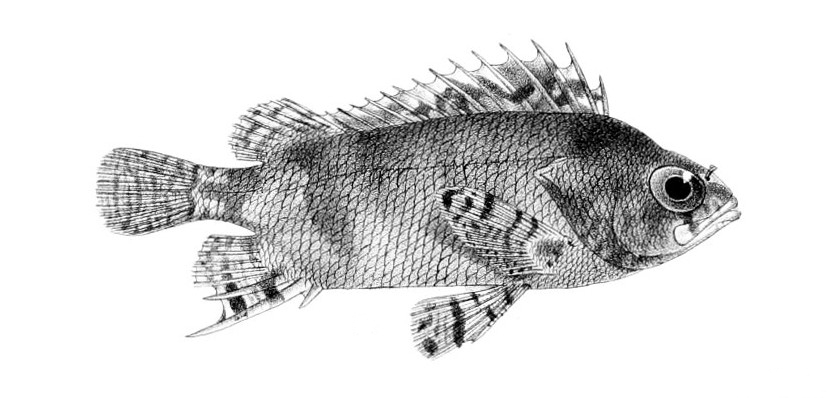 Sebastes stoliczkae (=Centrogenys vaigiensis)